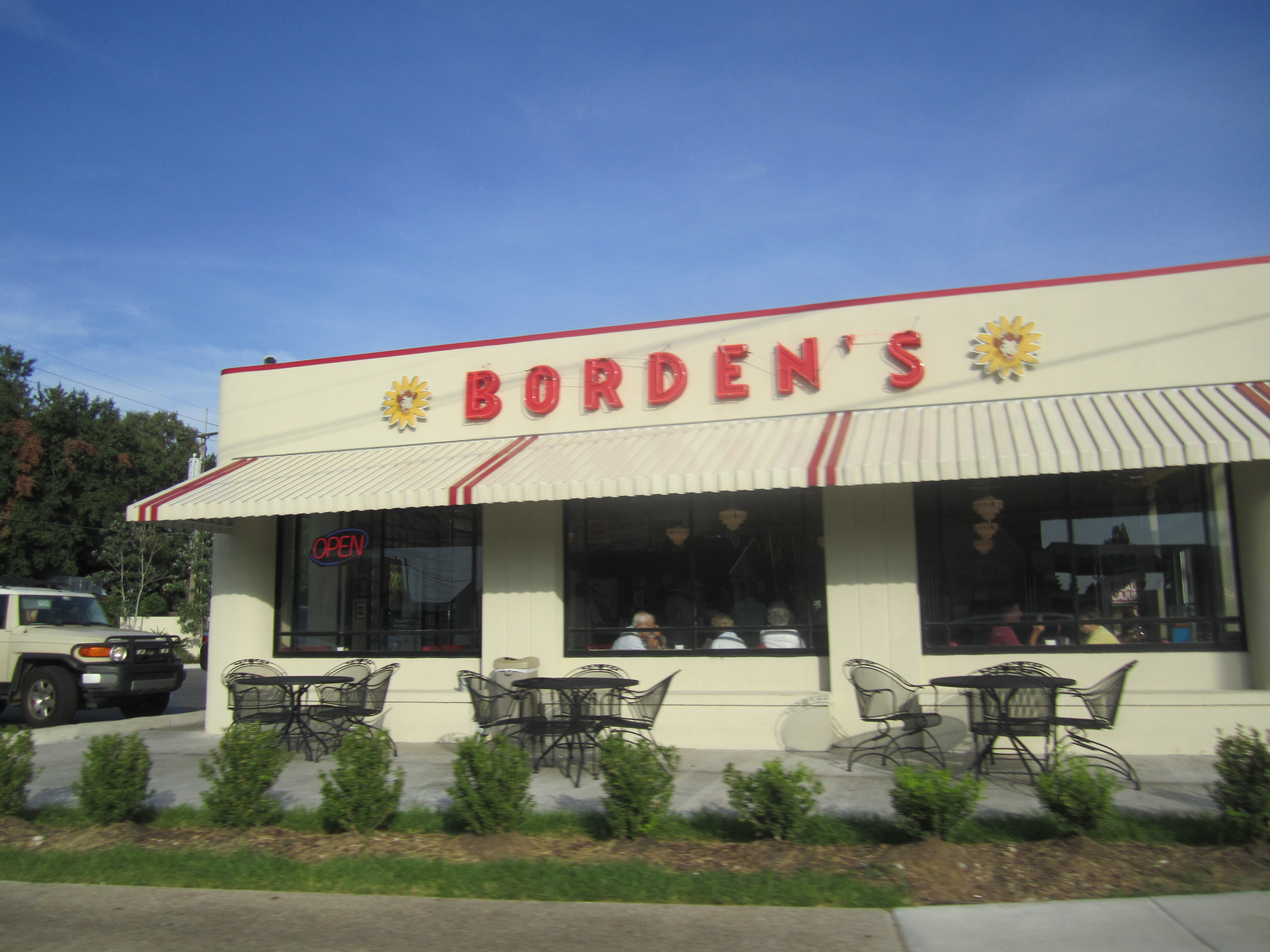 I took photo of Borden's outlet in Lafayette, LA, using Canon camera.